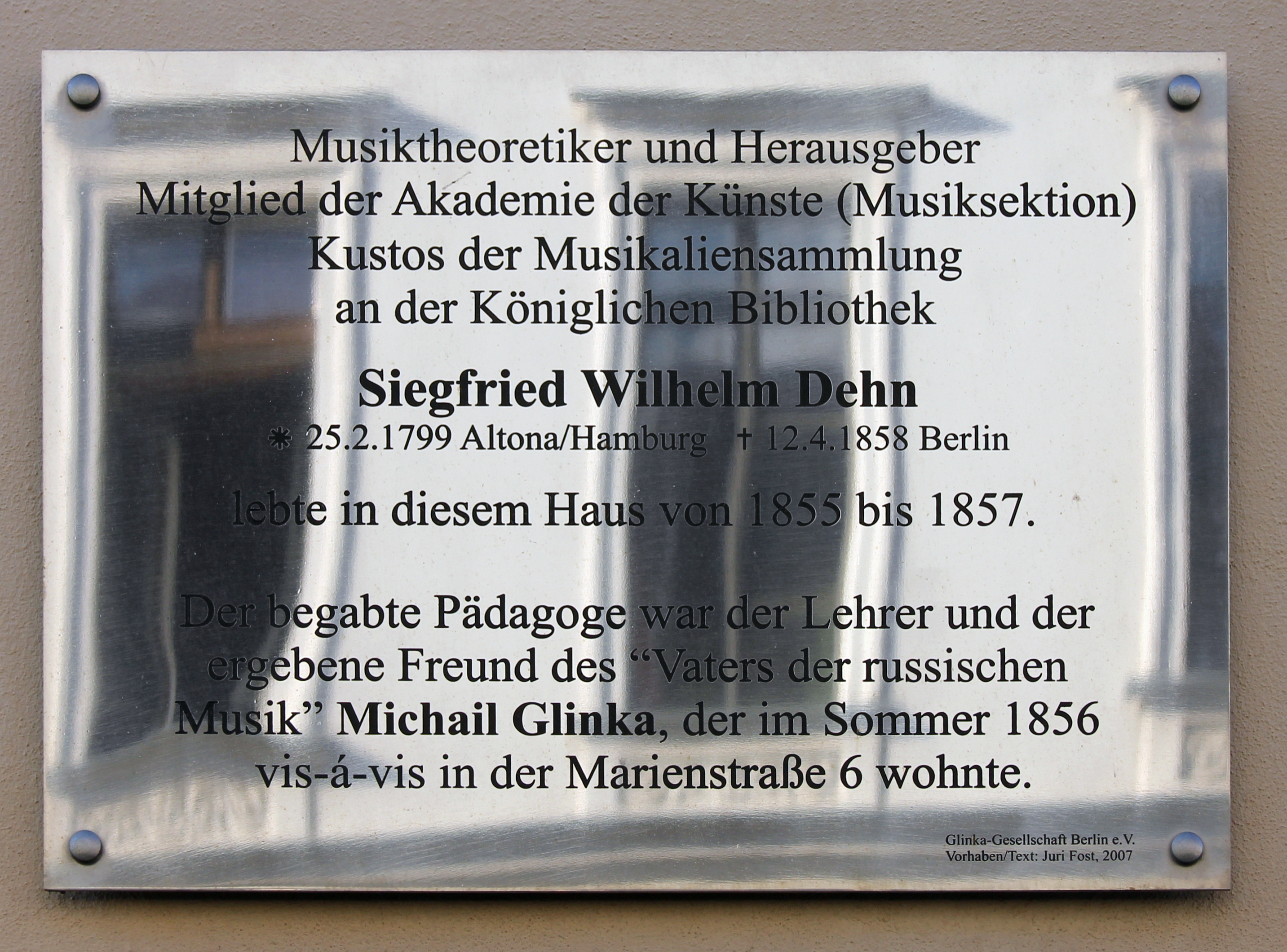 Memorial plaque, Siegfried Wilhelm Dehn, Marienstraße 28, Berlin-Mitte, Deutschland